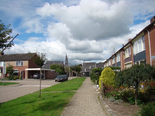 Stoltenborg Bredevoort